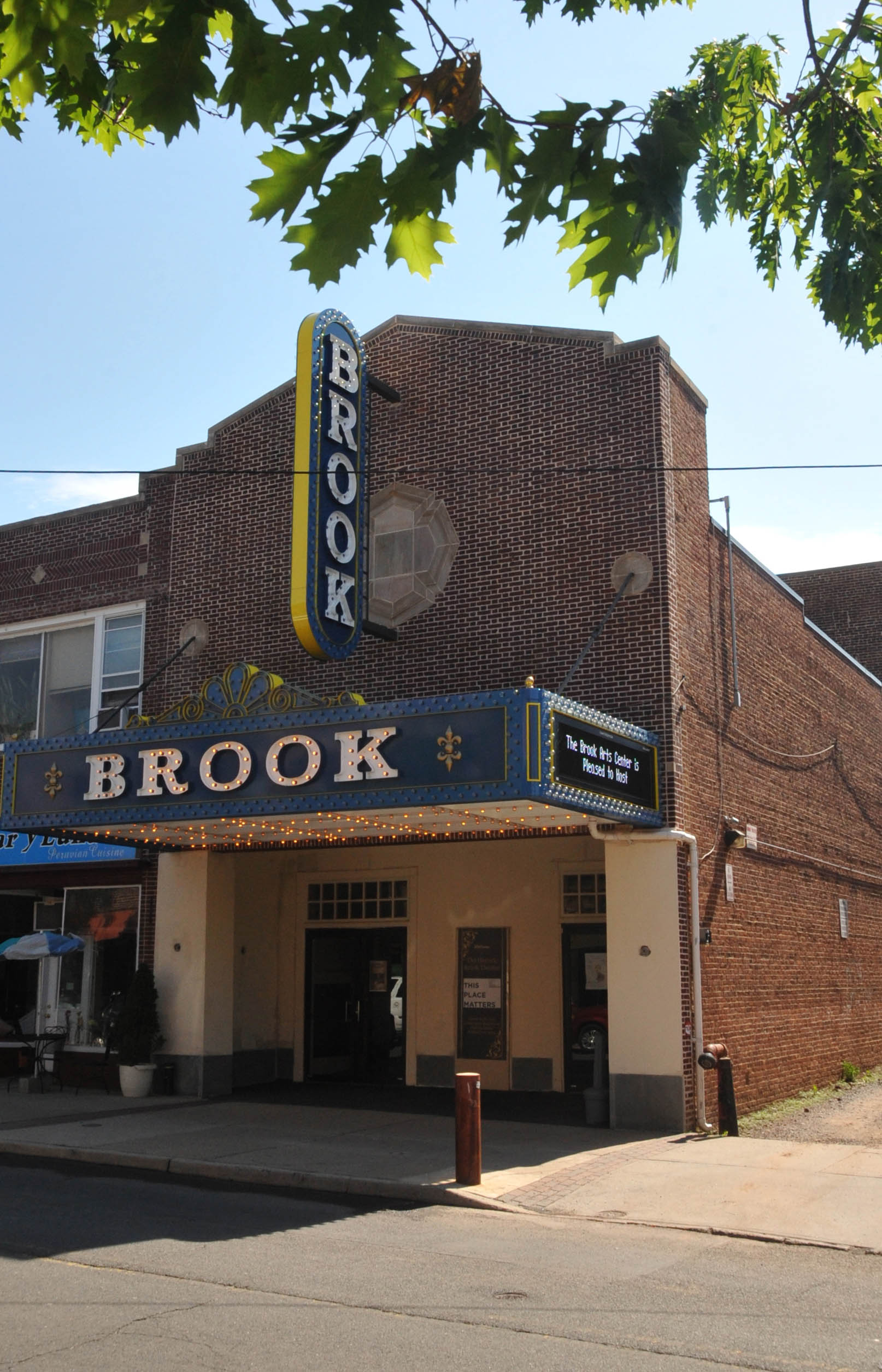 IT OPENED IN 1927 WITH 5 ACTS OF VAUDEVILLE AND TWO MOVIES. IT HAS OPENED AND CLOSED THROUGH THE YEARS DUE TO FIRES AND FLOODS.BUT HAS REPEATEDLY BEEN RESTORED AND IS OPEN AGAIN